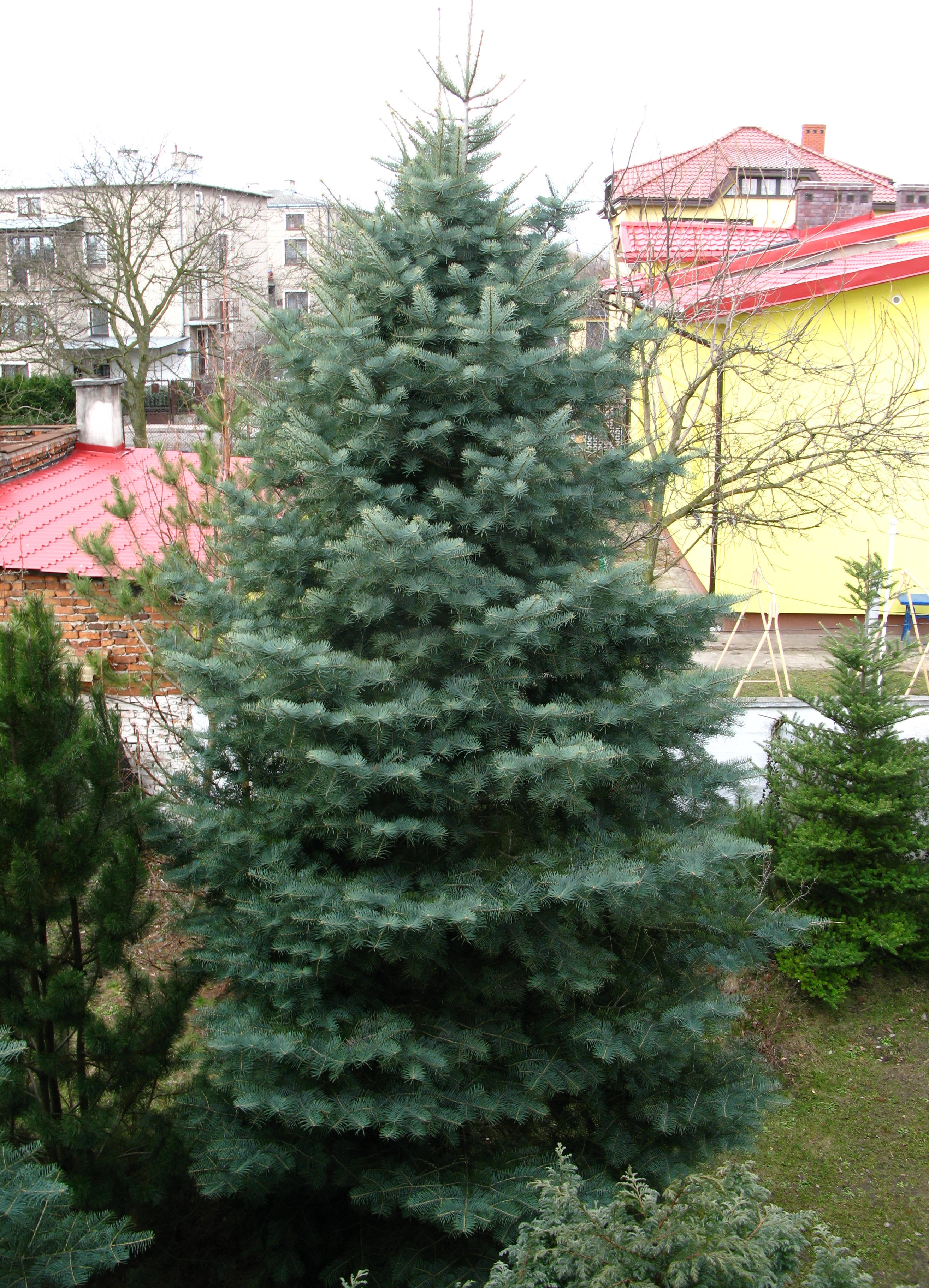 6 meters high and 15 years old, cultivated White Fir (Abies concolor) in Marki, Poland